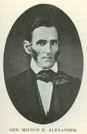 General Milton K. Alexander, served during the Black Hawk War of 1832, from daguerreotype owned by his daughter, Mrs. J. A. Judson, of Paris, Illinois.